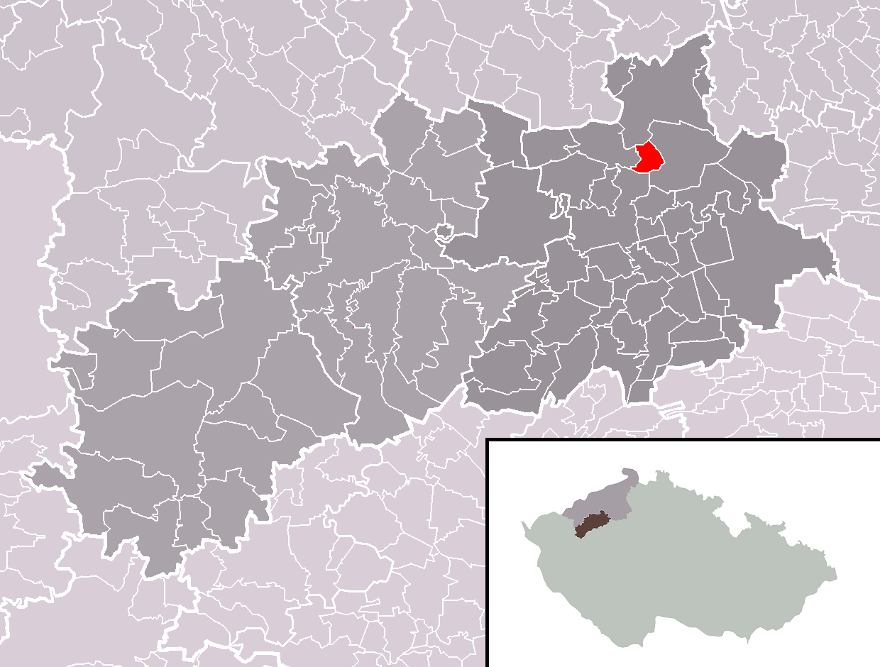 Location of Chraberce municipality within Louny District and administrative area of Louny as a Municipality with Extended Competence.